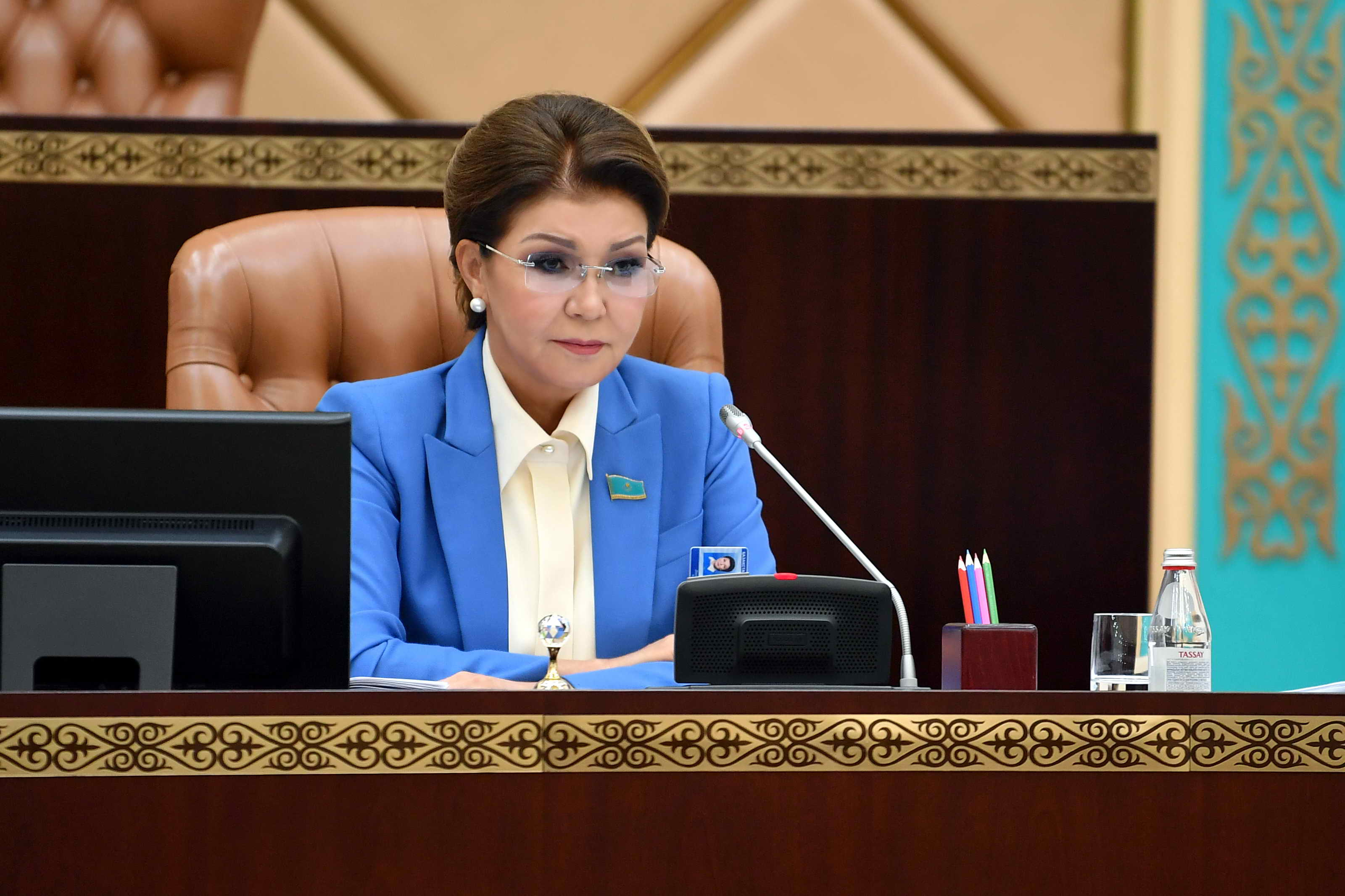 Dariga Nazarbayeva